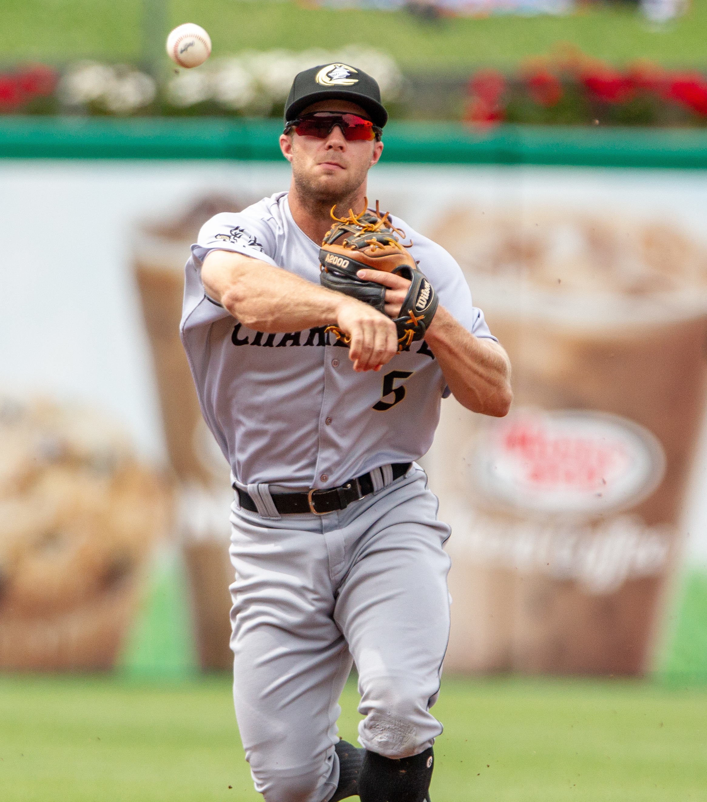 July 29, 2018. McCoy Stadium, Pawtucket, RI. Photo: ©KJ Sports PIcs